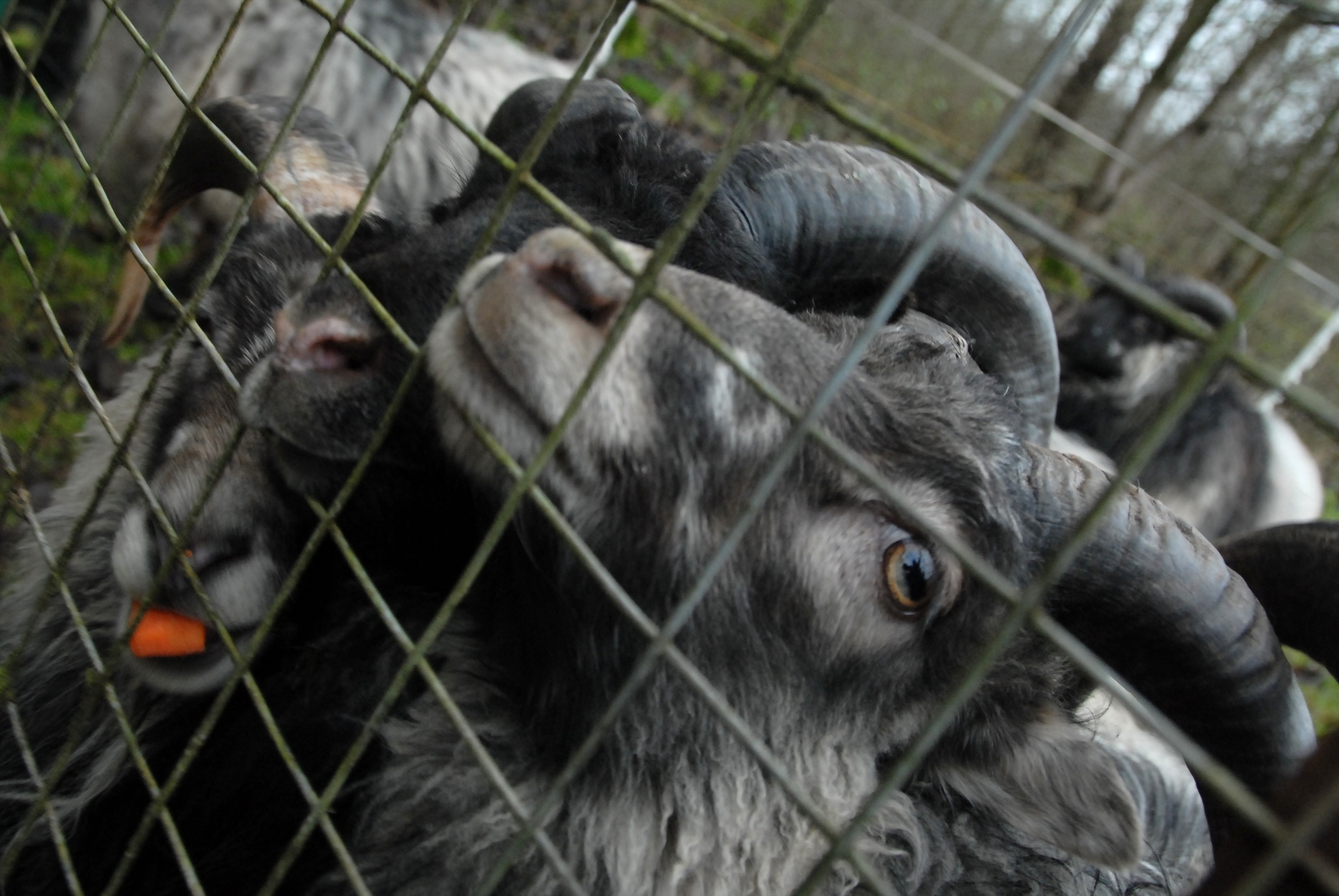 The sheep of the island of North Ronaldsay are apparently the few breeds to eat seaweed. However, in Lincolnshire they have discovered the local delicacy – carrots.